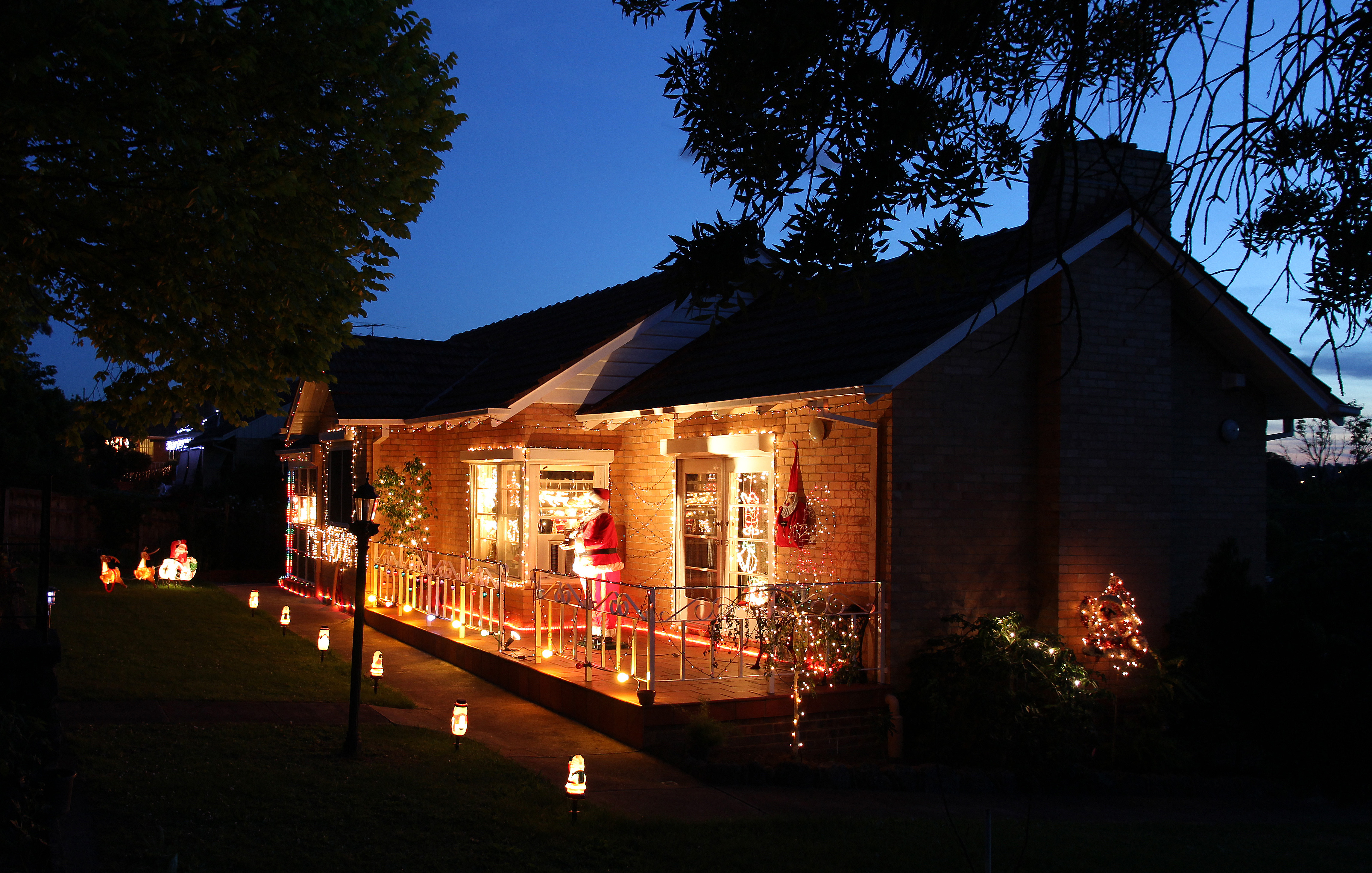 The Boulevard Christmas Lights Display in Ivanhoe, Melbourne